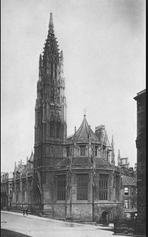 St Marys Free Church, Edinburgh c.1860 (contemporary postcard)